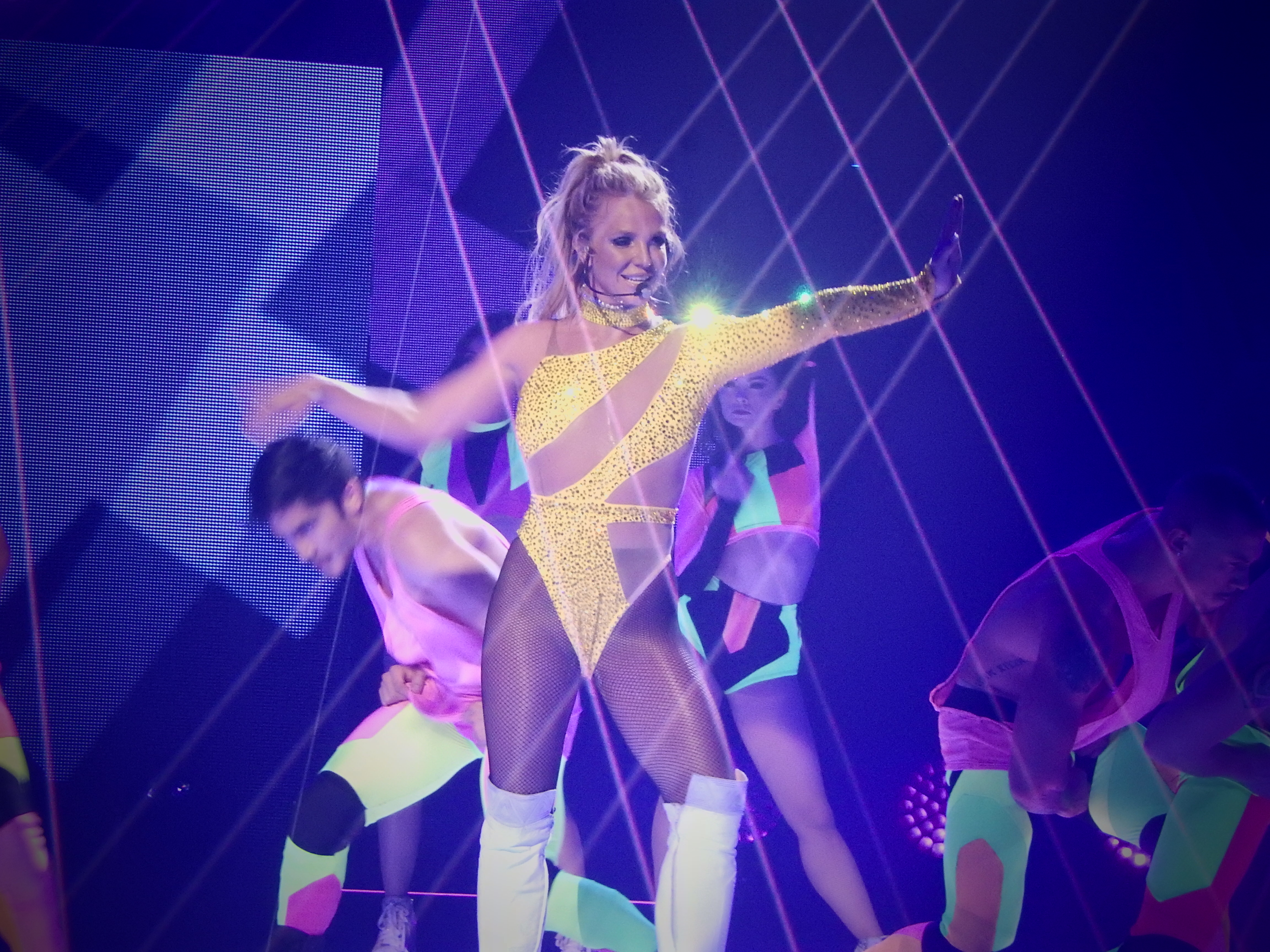 Britney Spears, Roundhouse, London (Apple Music Festival 2016)